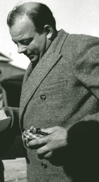 Antoine de Saint-Exupéry in Tunis in 1935Simple